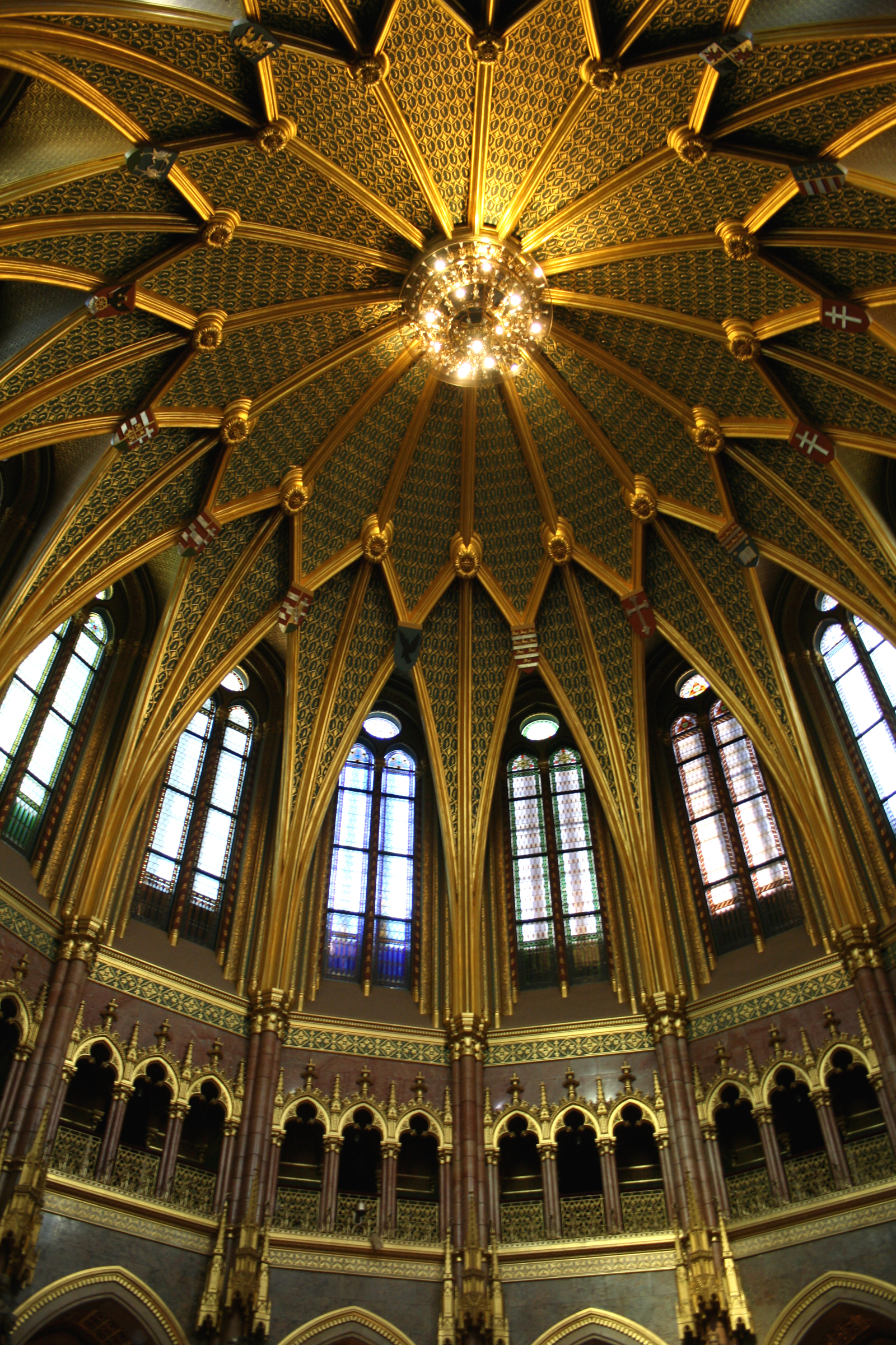 Interior of Parliament of Hungary, Budapest, Hungary